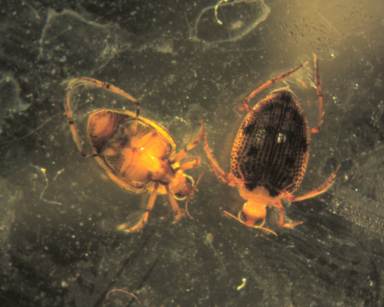 Order: Coleoptera Family: Haliplidae Genus: Peltodytes